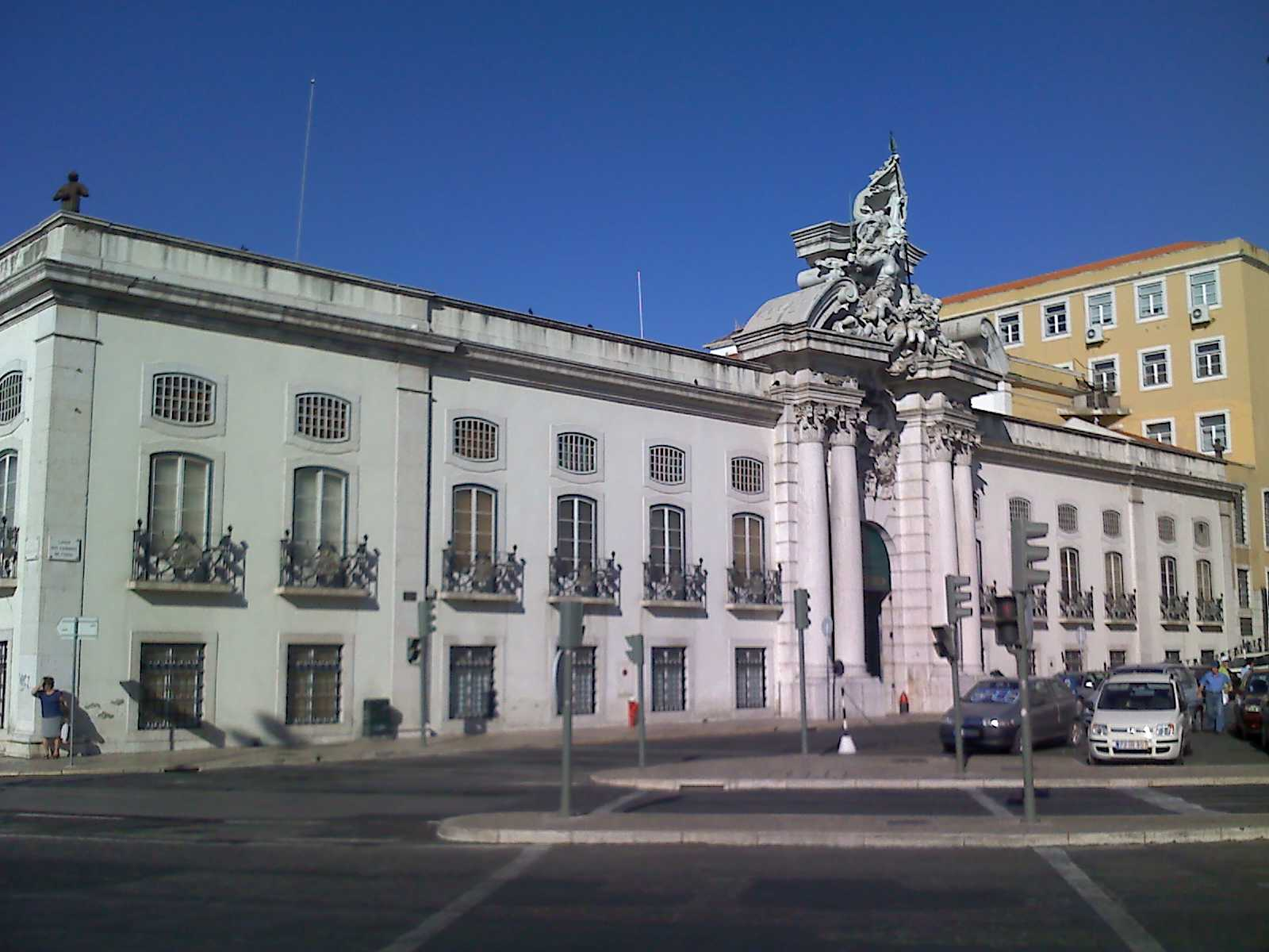 Military Museum of Lisbon